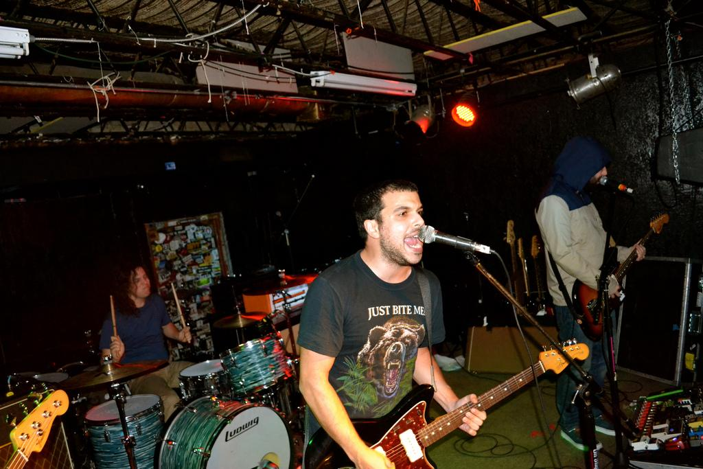 Sainthood Reps performing in Iowa City as part of La Dispute's Wildlife Tour.